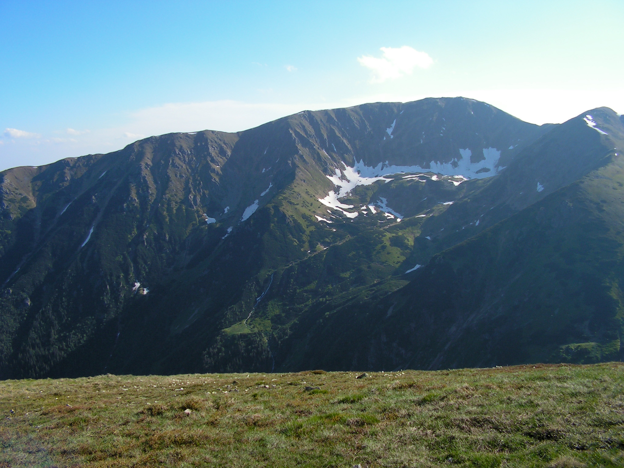 Skalka (1980 m) in Low Tatras.